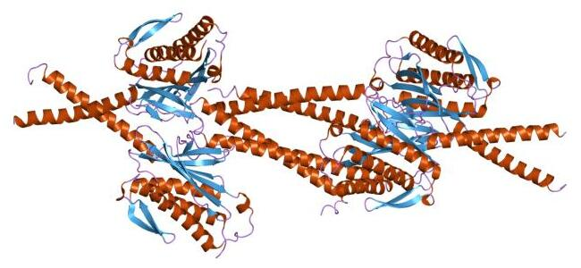 Cartoon representation of the molecular structure of protein registered with 1go4 code.